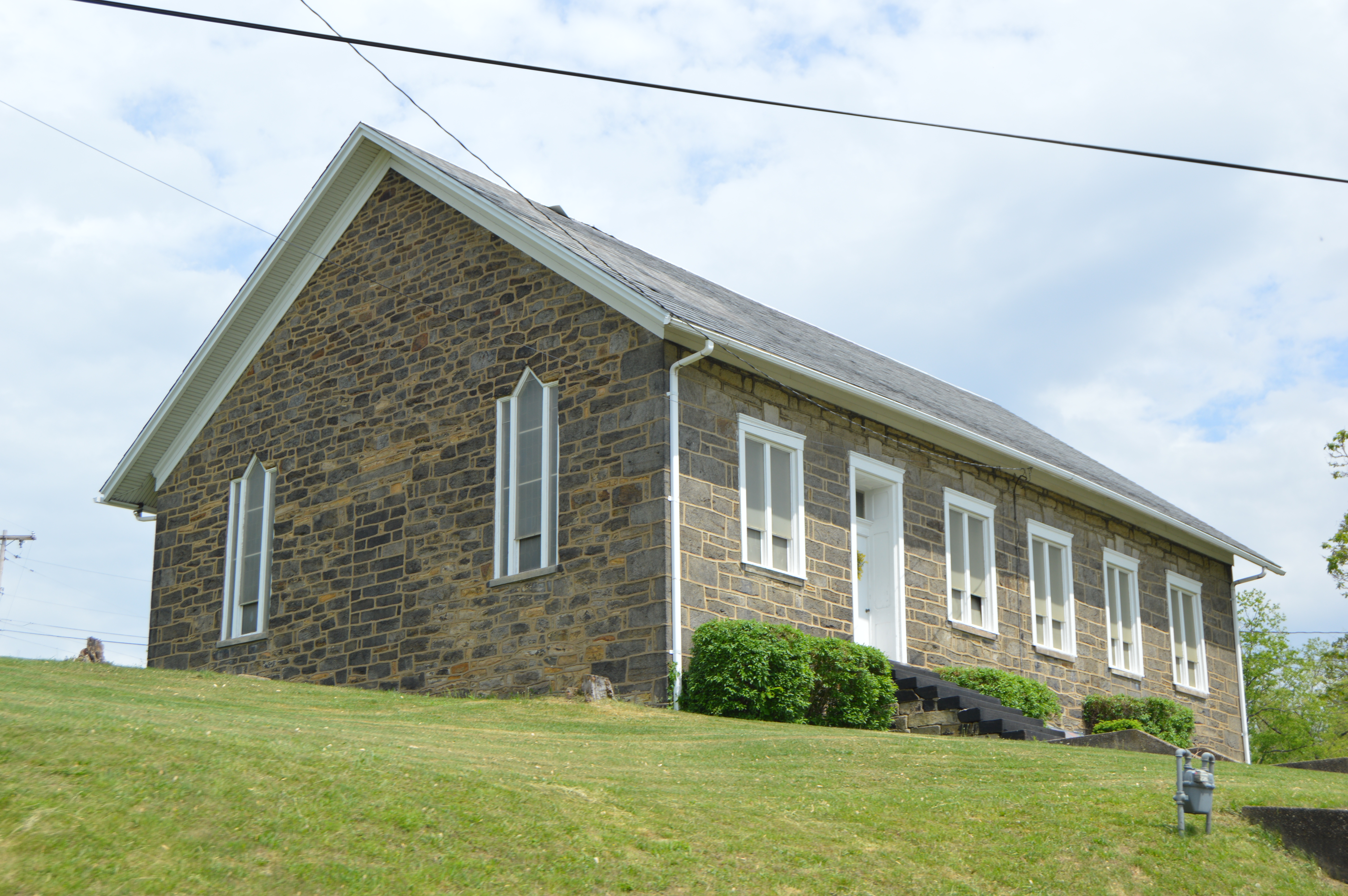 View from the west of Dunlap's Creek Presbyterian Church, located at the junction of Stone Church and Twin Hills Roads at Merrittstown, Pennsylvania, United States. Built in 1814, the building is home to the oldest Presbyterian congregation west of the Alleghenies; it was organized in 1774.